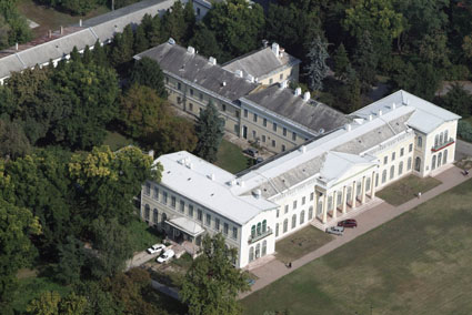 Palace - Fót - Hungary - Europe